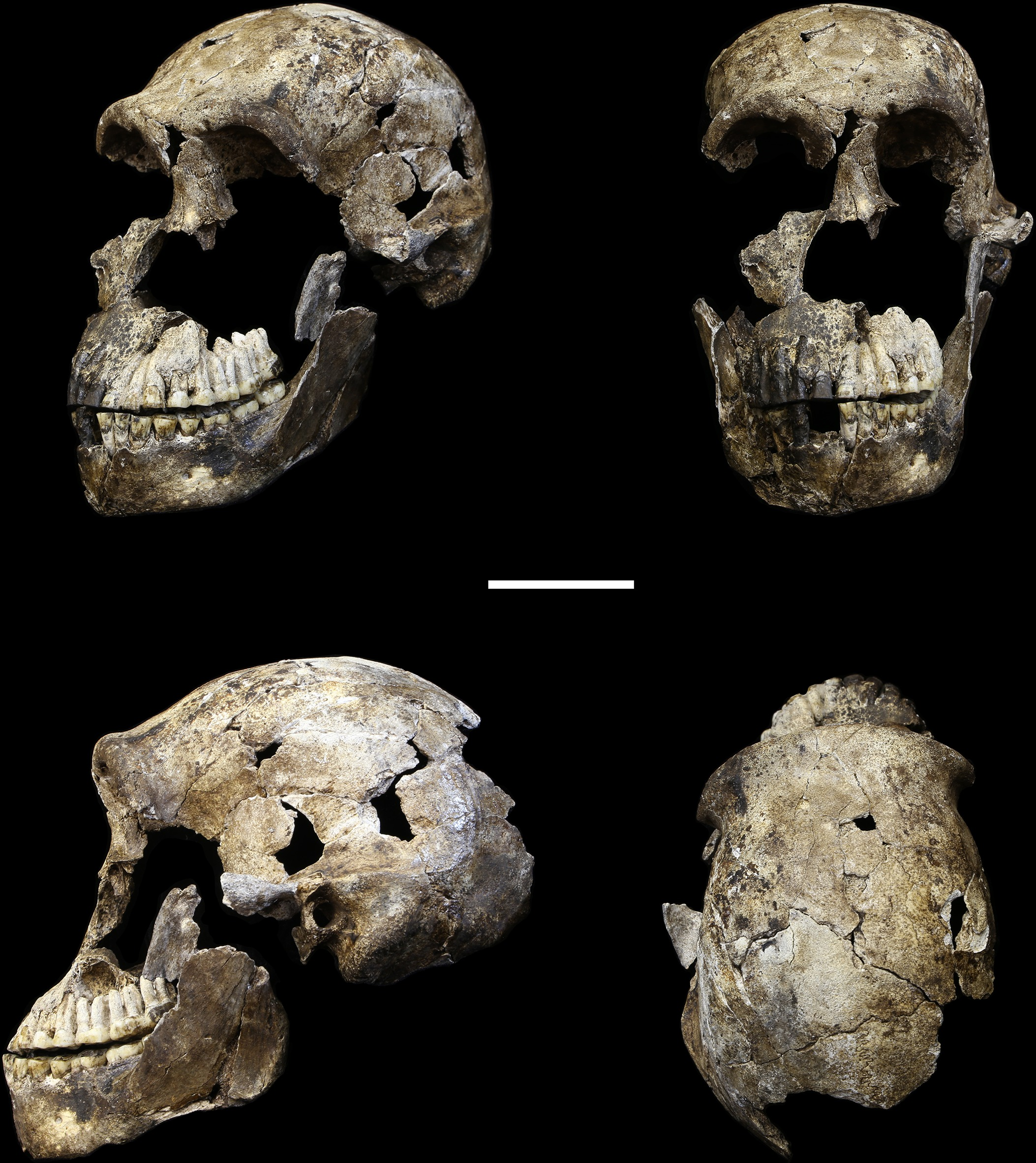 LES1 cranium from Homo naledi. Clockwise from upper left: three-quarter, frontal, superior and left lateral views. Fragments of the right temporal, the parietal and the occipital have also been recovered (not pictured), but without conjoins to the reconstructed vault or face. Scale bar = 5 cm.